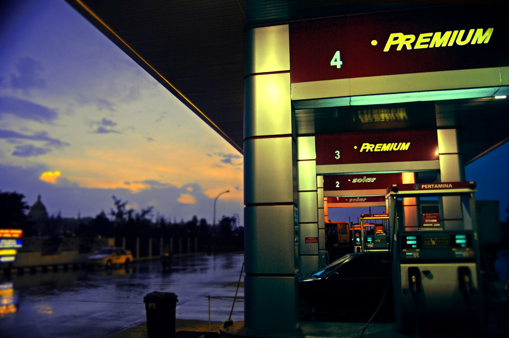 Gas station has always been a favorite one stop place for motor-bikers especially when it's raining. I know now is not really a good timing to post this picture. It's a bit contradictory with the UN Climate Change Conference which is held in Bali recently where one of their issue was to improve the use of environmentally friendly vehicles. Talking about fuel reminds me about an article which I read several month ago regarding coconut oil as an alternative fuel. That could be interesting .. not only it's environmentally friendly, your car might also smell like french fries :)